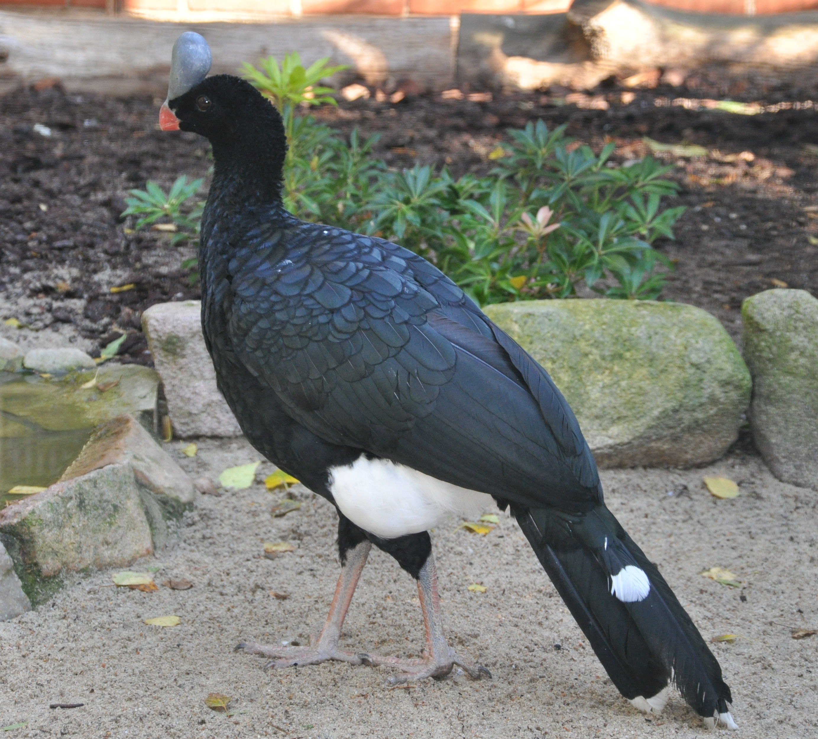 Northern Helmeted Curassow (Pauxi pauxi) in the Walsrode Bird Park, Germany.